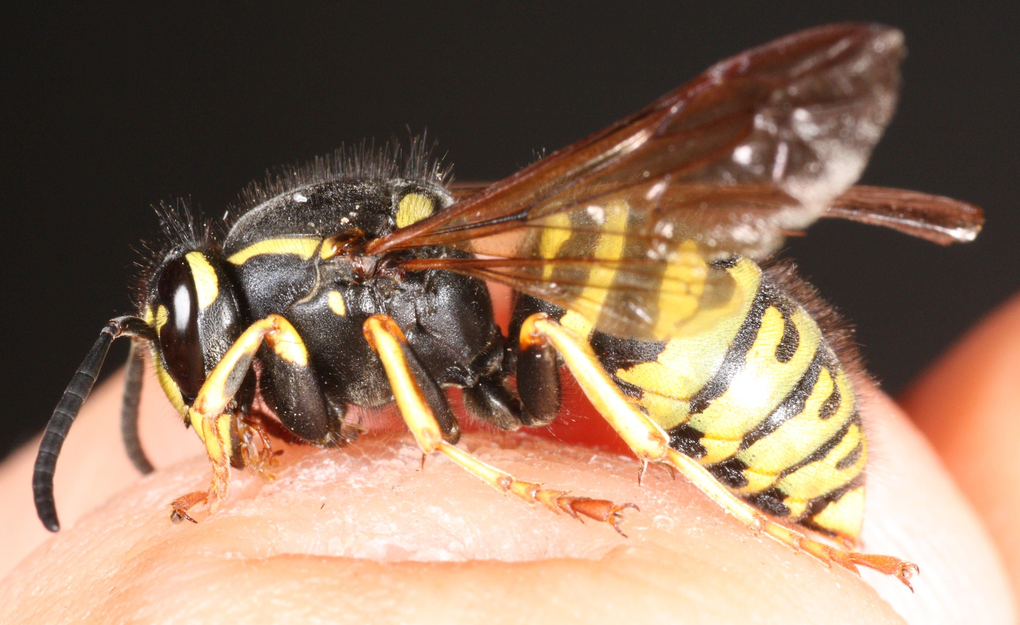 Queen of red cuckoo wasp Vespula austriaca